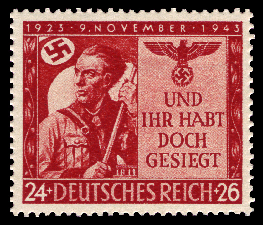 20th year of the Hitler-Putsch Graphics by Roubal Ausgabepreis: 24+26 Pfennig First Day of Issue / Erstausgabetag: 5. November 1943 Michel-Katalog-Nr: 863 (Deutsches Reich)